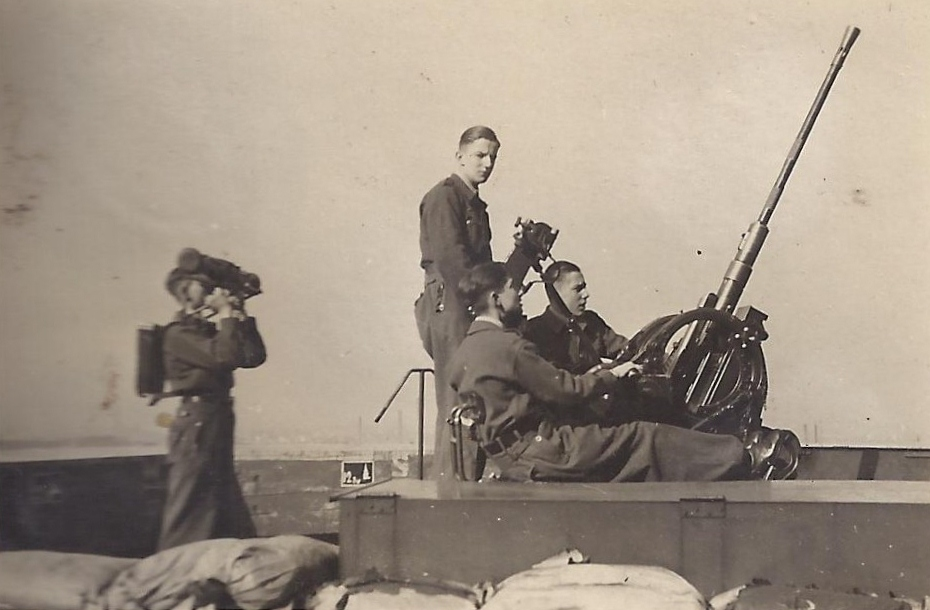 2cm-antiaircraft gun with Flakhelfern (born 1927) on the Flaktower Berlin-Gesundbrunnen (Humboldthain), 1943